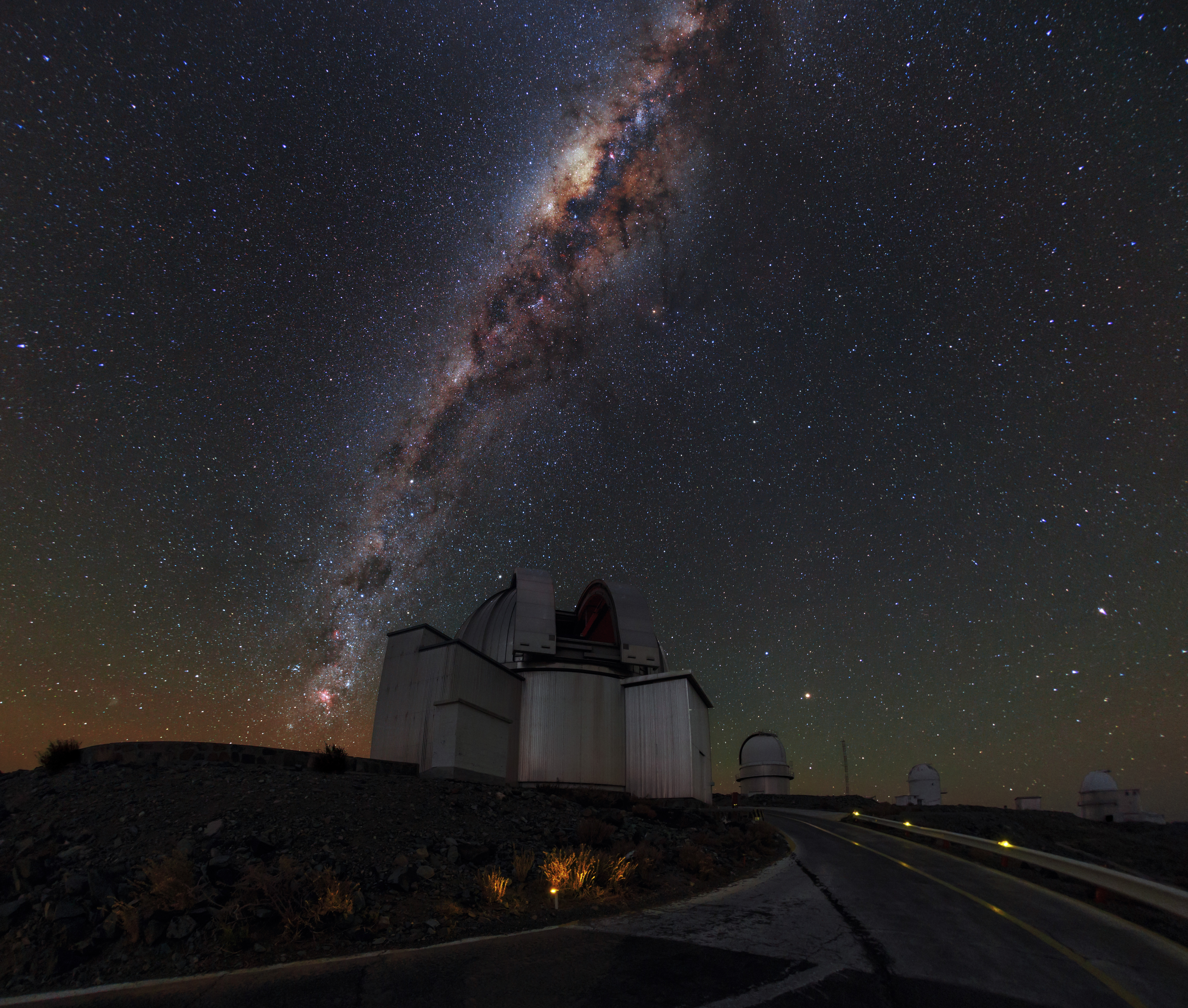 High up in the Chilean Atacama Desert, pioneering feats of human engineering collide with the majestic beauty of the natural world. This image shows ESO’s La Silla Observatory, where domes housing some of the most advanced astronomical instruments in the world sit beneath a sky shimmering with stars. All of these stars belong to our home galaxy, the Milky Way. The Milky Way contains billions of stars, arranged in two strikingly different structures. The roughly spherical halo component, consisting mainly of older stars, appears in this image as the background of stars scattered across the sky. The second component is a thin disc made up of younger stars, gas and dust. We see this as a dense, bright, and visually stunning band running almost vertically across the sky. Pockets of dust block out the light from stars behind, giving the band a mottled appearance. The bright concentration in the band of stars, located toward the top centre of this image, is the central region of the Milky Way. Here, astronomers have measured stars moving very much faster than anywhere else in our galaxy. This is taken as evidence for a supermassive black hole, some four million times the mass of the Sun, at the very centre of our galaxy. The black hole cannot be observed directly, but its presence can be inferred from the effect its enormous gravity has on the motions of these nearby stars.